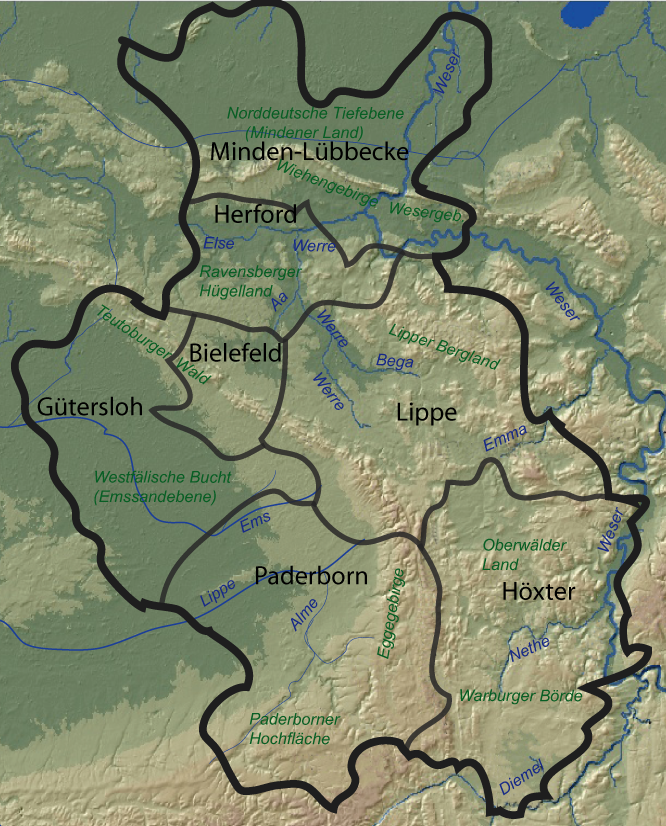 Topography of the least populus and easternmost region of North Rhine-Westphalia: Ostwestfalen-Lippe (OWL)